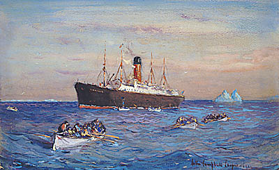 Rescue of the Survivors of the Titanic by the Carpathia, Colin Campbell Cooper, gouache on board, 8.5 x 14", painted by Cooper during the rescue operation while he was aboard the Carpathia